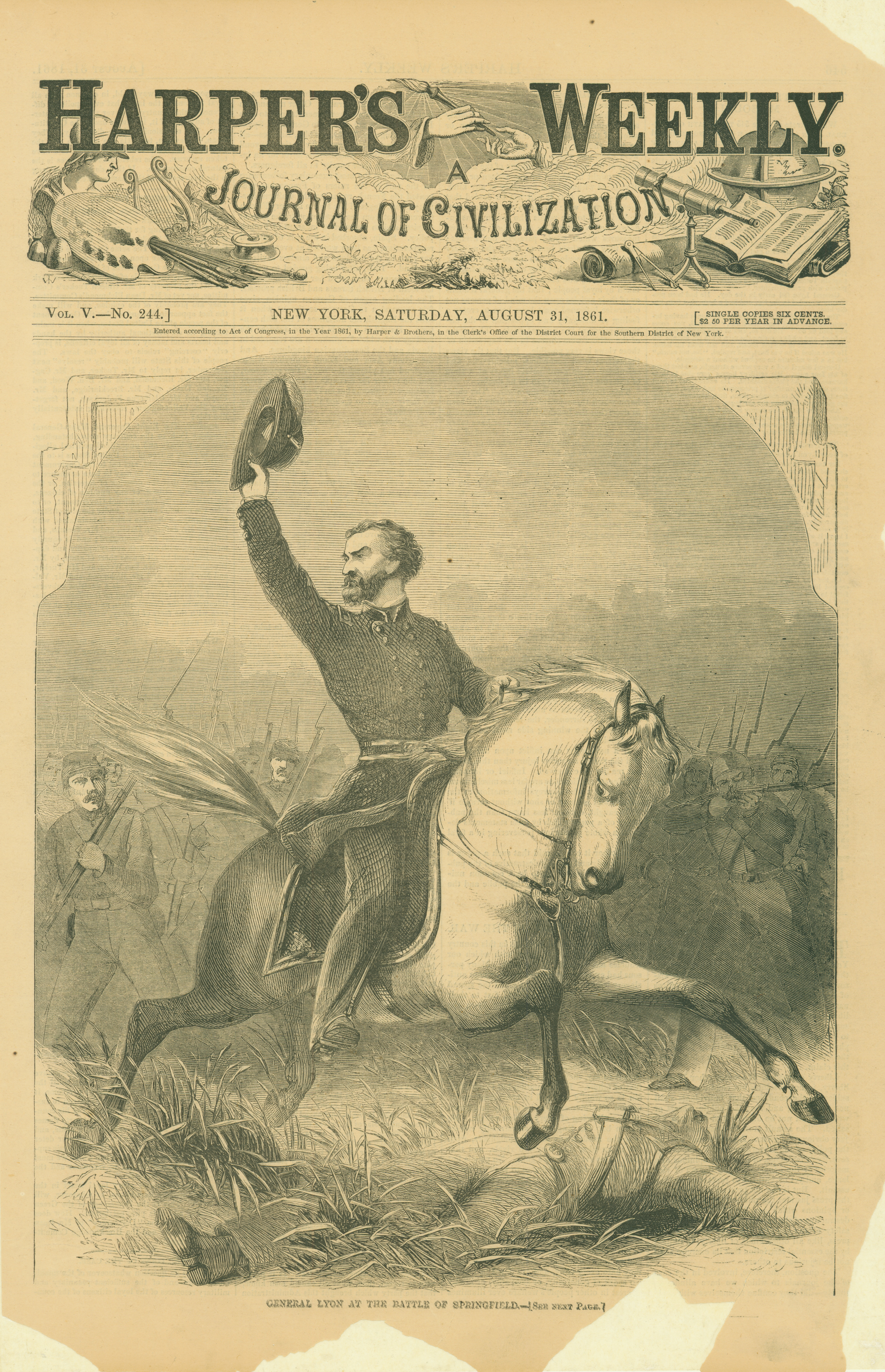 Front-page print of Gen. Lyon on a horse, waving his hat in front of troops in the background. "GENERAL LYON AT THE BATTLE OF SPRINGFIELD. - [SEE NEXT PAGE]" (printed below image). Newspaper clipping from Harper's Weekly, August 31, 1861.Title: "General Lyon at the Battle of Springfield."